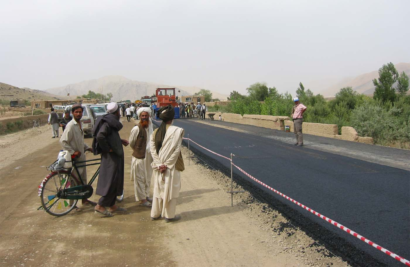 Afghanistan: Local Residents Observing Paving of Kabul-Kandahar Road Reconstruction of the country’s principal road system is the key to Afghanistan’s economic recovery. Rebuilding the transportation infrastructure will enable the movement of people, aid resources, and farm and trade goods–all essential to Afghanistan’s development. The United States has provided about $190 million, through USAID, to reconstruct a 300-mile segment of Highway 1.